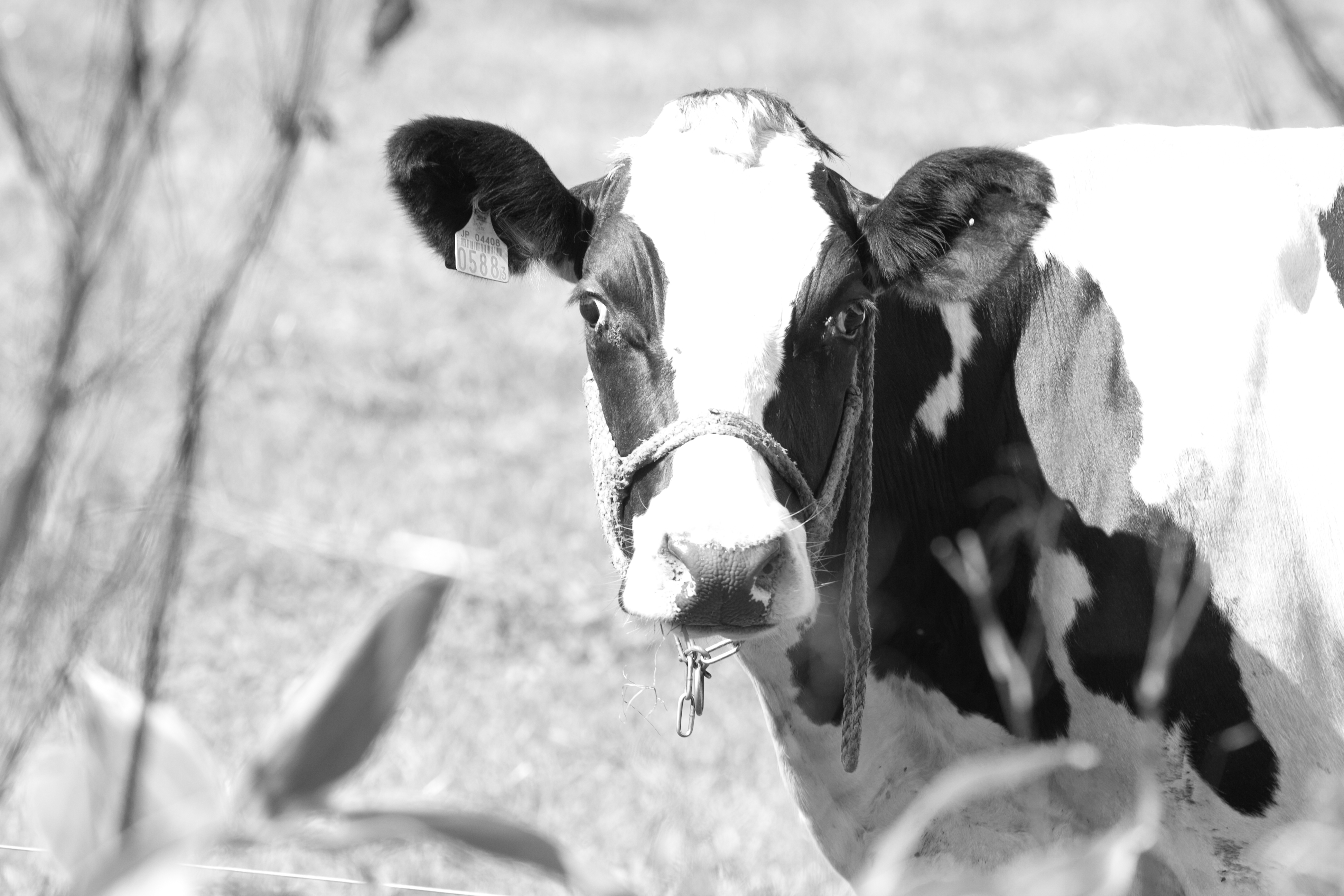 One of the many Holstein cows living in Shimizu.